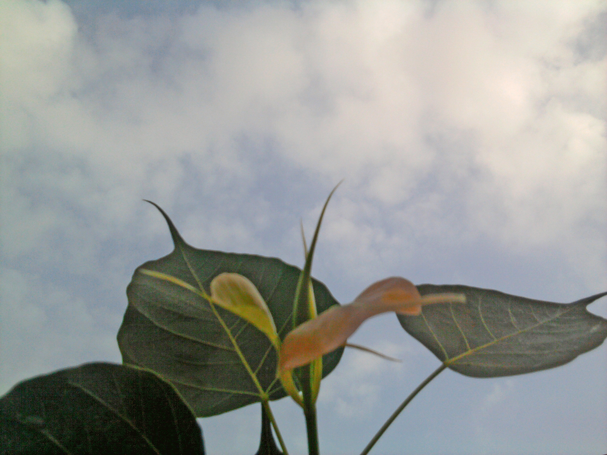 Ficus religiosa leaves